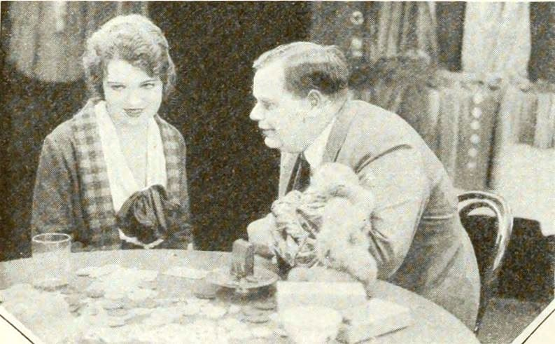 Still from the American silent comedy film Traveling Salesman (1921), from page 60 of the July 1921 Photoplay magazine.